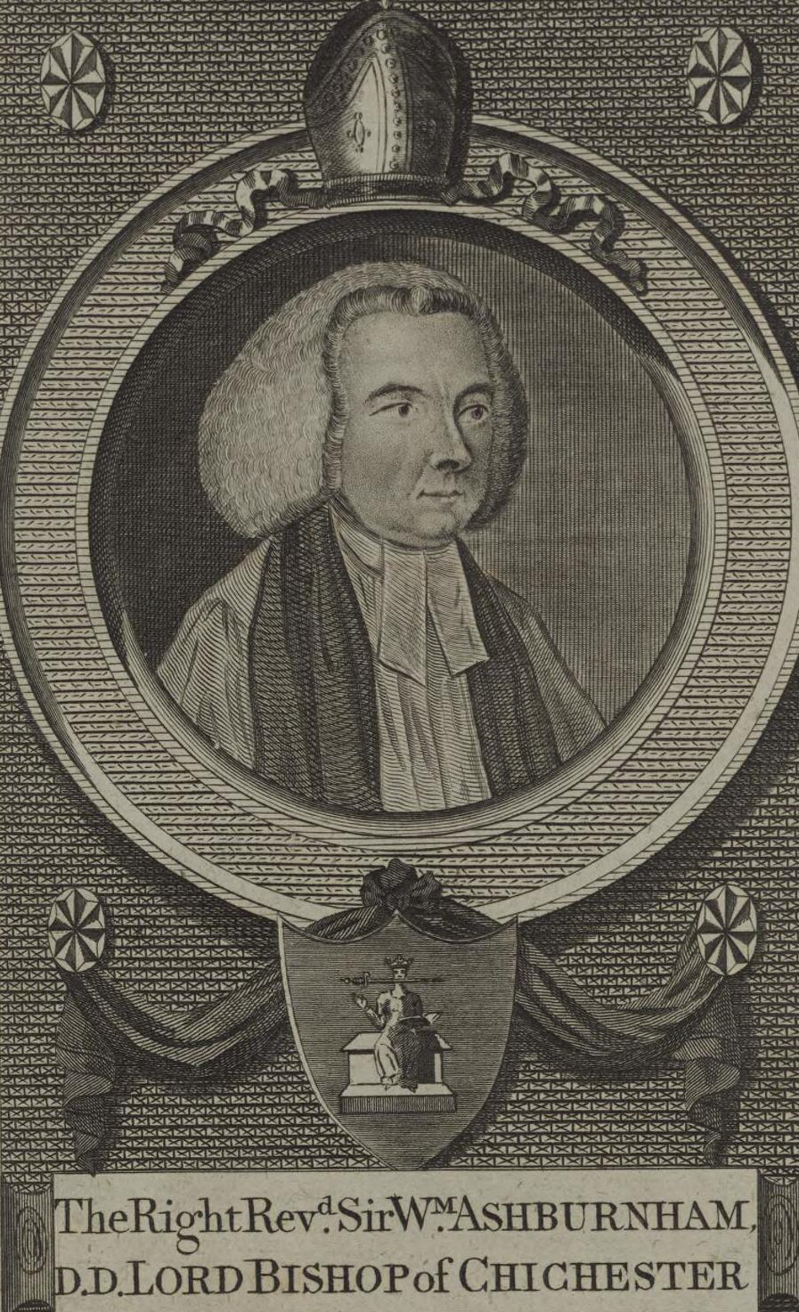 A portrait from the Welsh Portrait Collection at the National Library of Wales. Depicted person: Sir William Ashburnham, 4th Baronet – British bishop